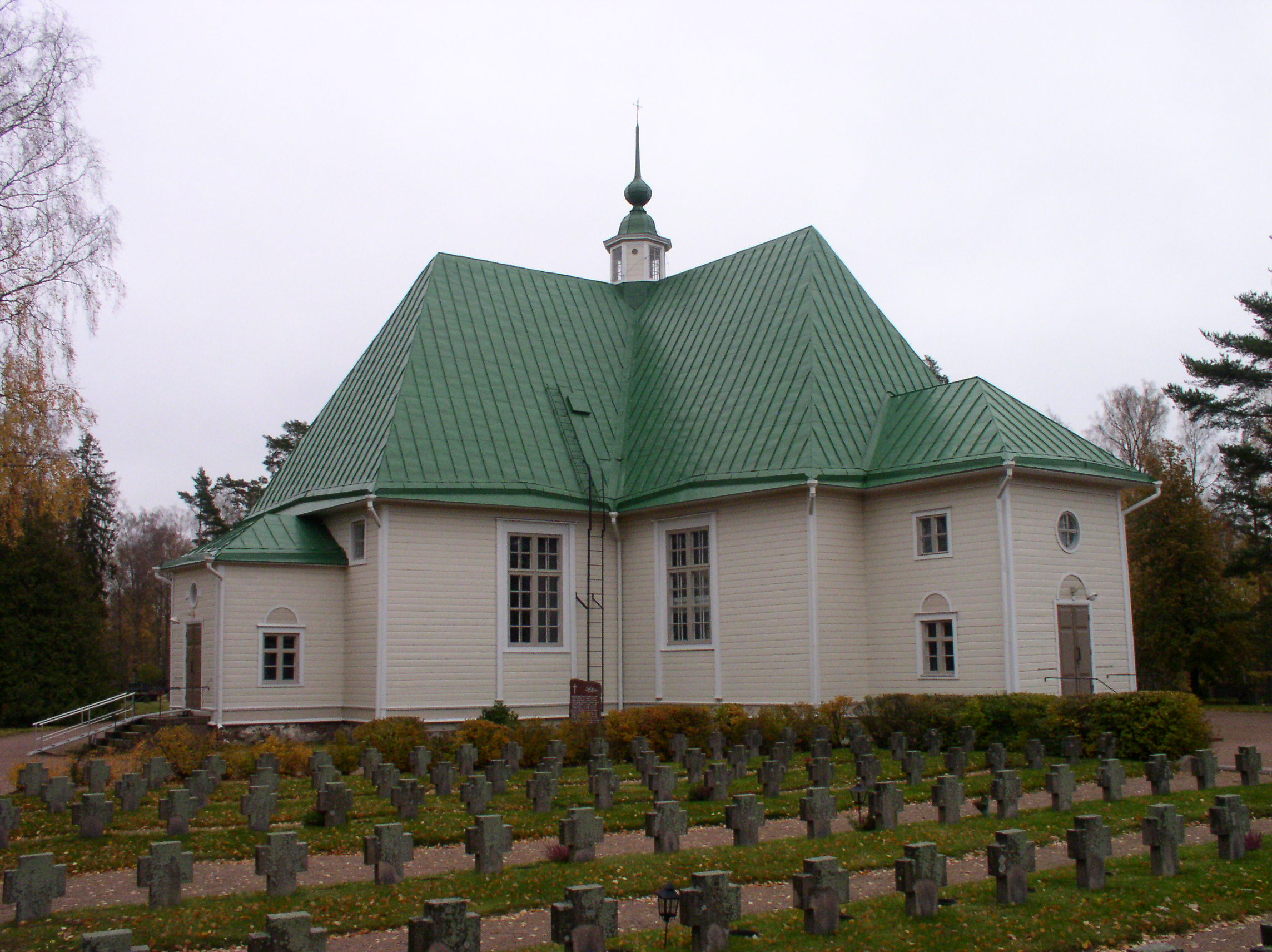 Virolahti church (build 1765-68) in Virolahti, Finland.